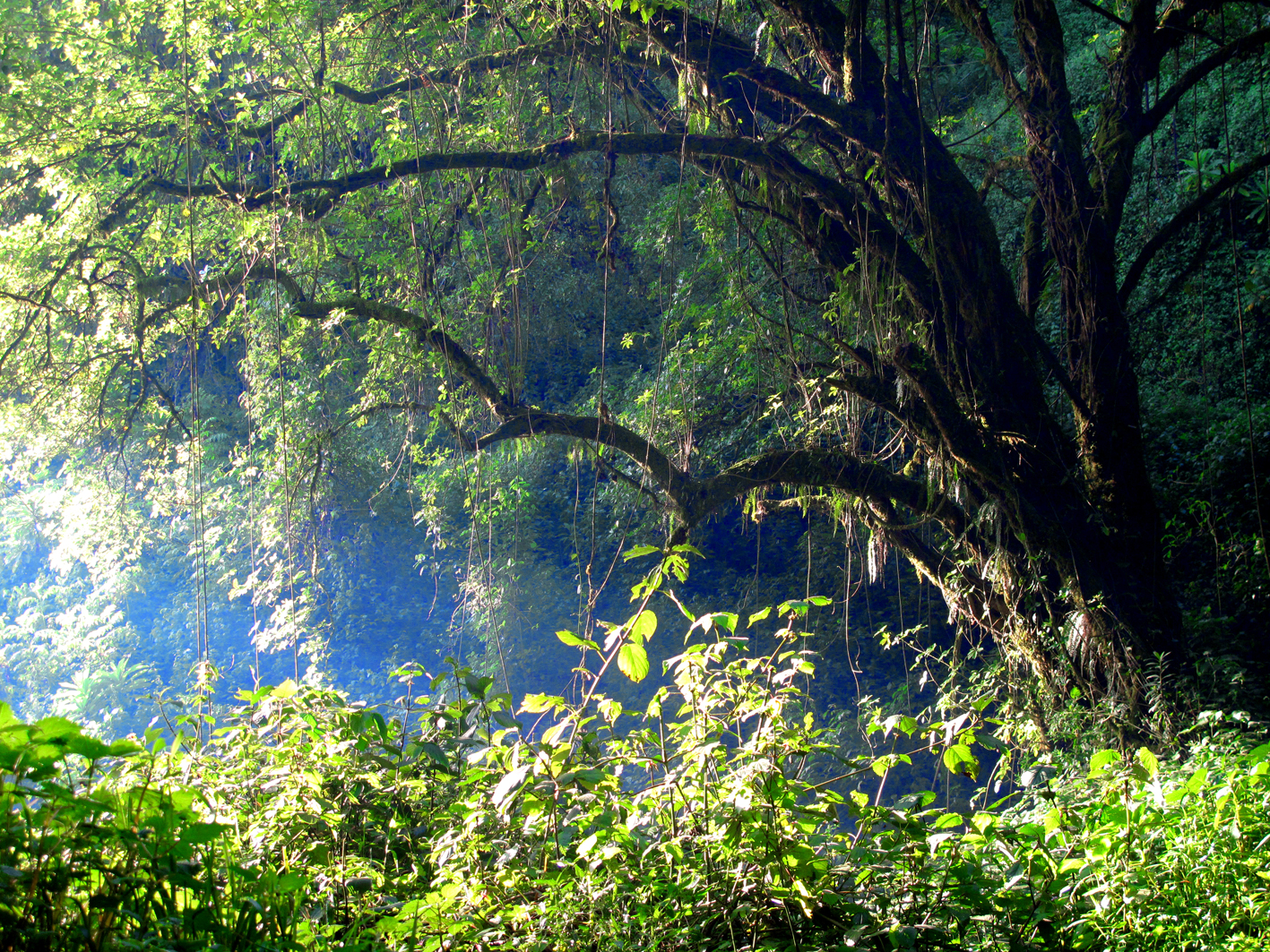 Mount Elgon Forest, Kenya, Uganda